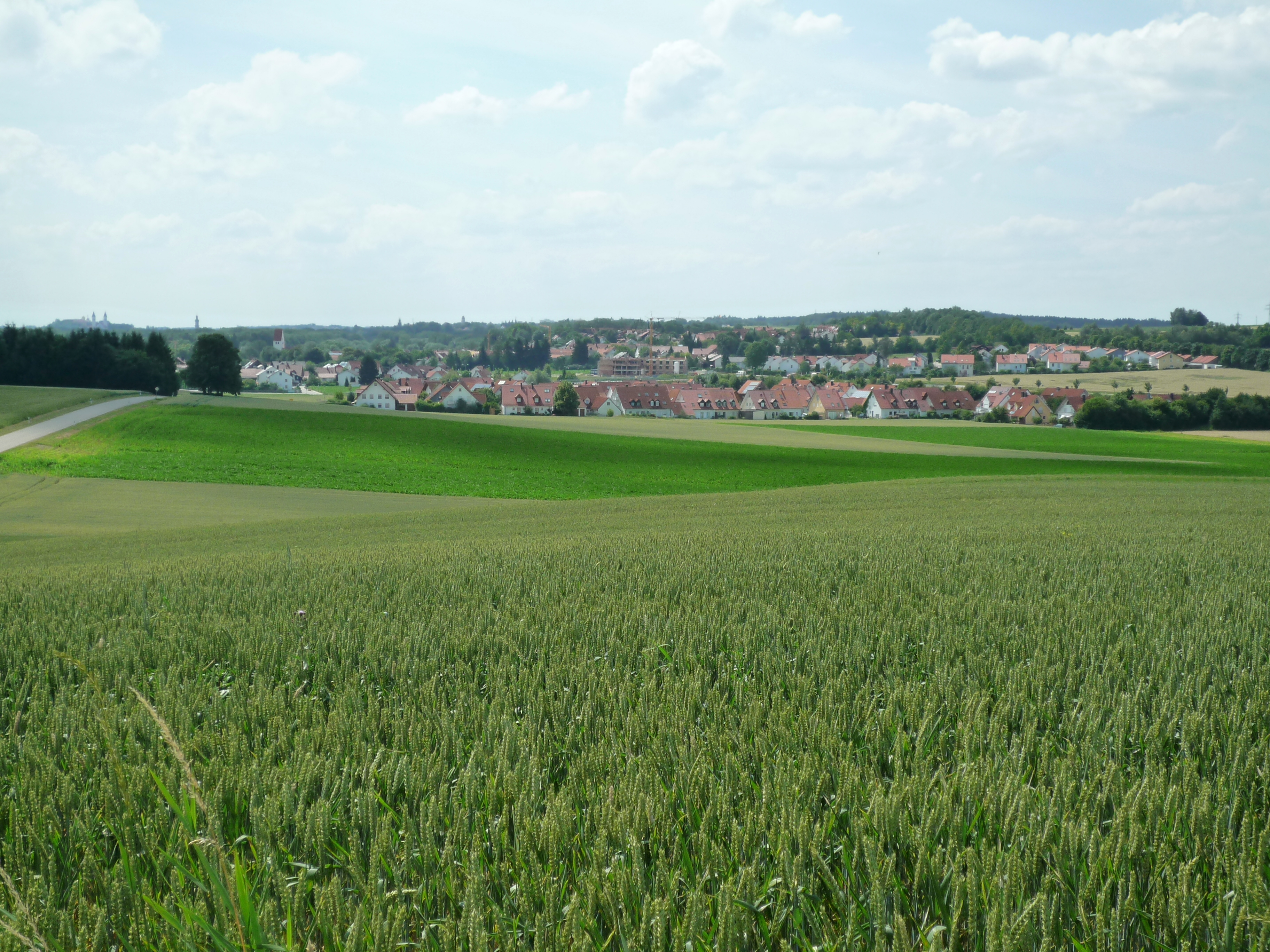 view over Marzling, Germany